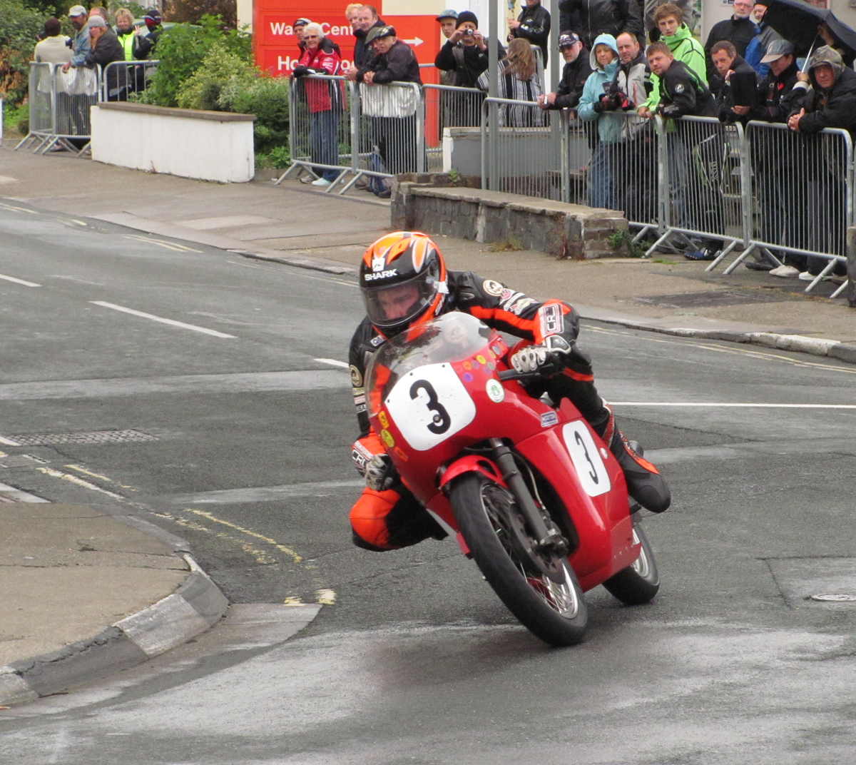 (Description : Ryan Farquhar 350cc Junior Classic Race 2a 29th Aug 2011 Manx Grand Prix Date : 29th August 2011 Source :Agljones at en.wikipedia Author Agljones at en.wikipedia Permission See below.)